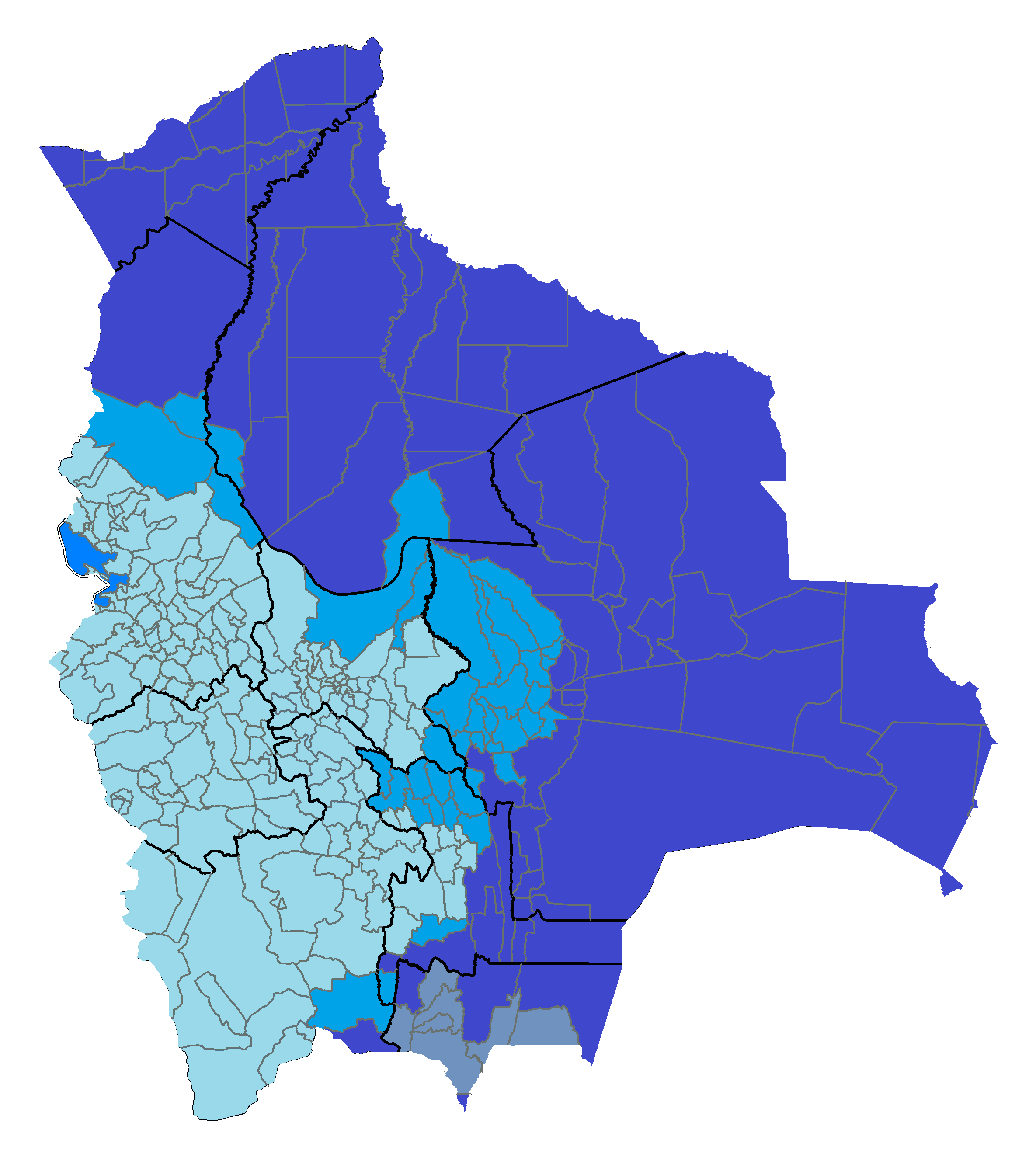 Español boliviano